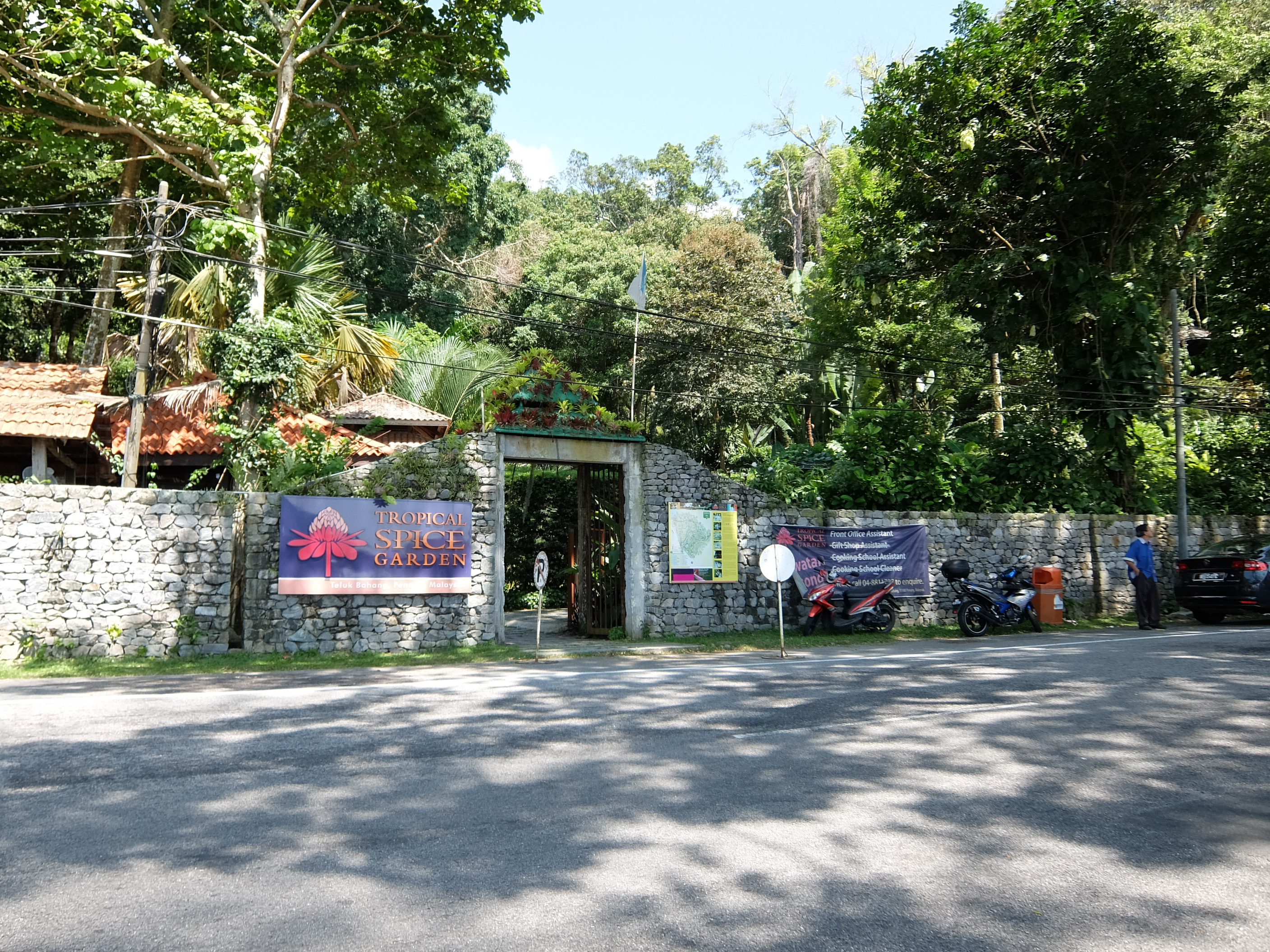 Tropical Spice Garden, Southwest Island, Penang, Malaysia